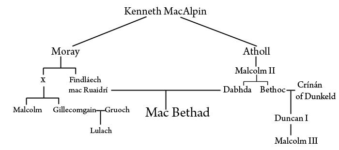 Family Tree of Macbeth